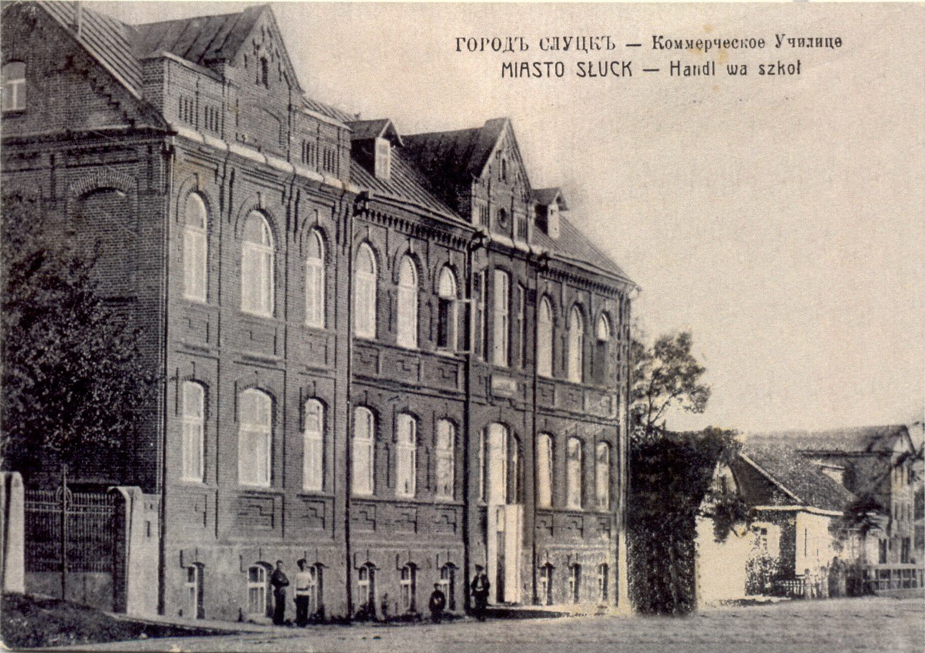 Private school in Slutsk.